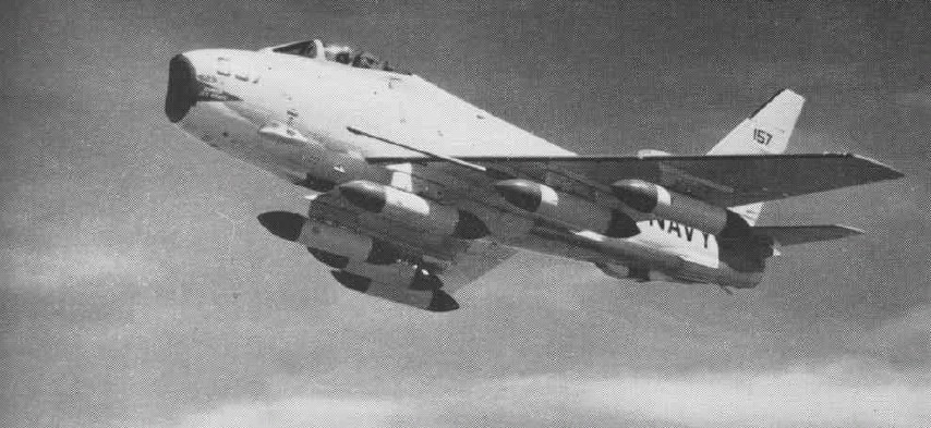 A North American FJ-4B Fury armed with six LAU-3/A rocket pods in 1957.